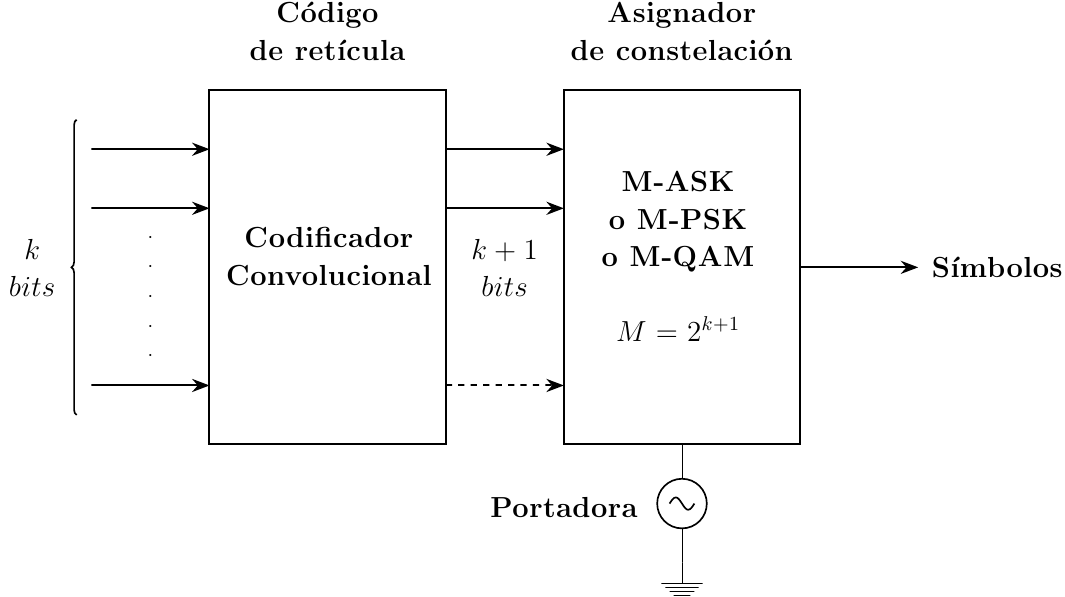 Block diagram of a TCM (Trellis Coded Modulation) modulator